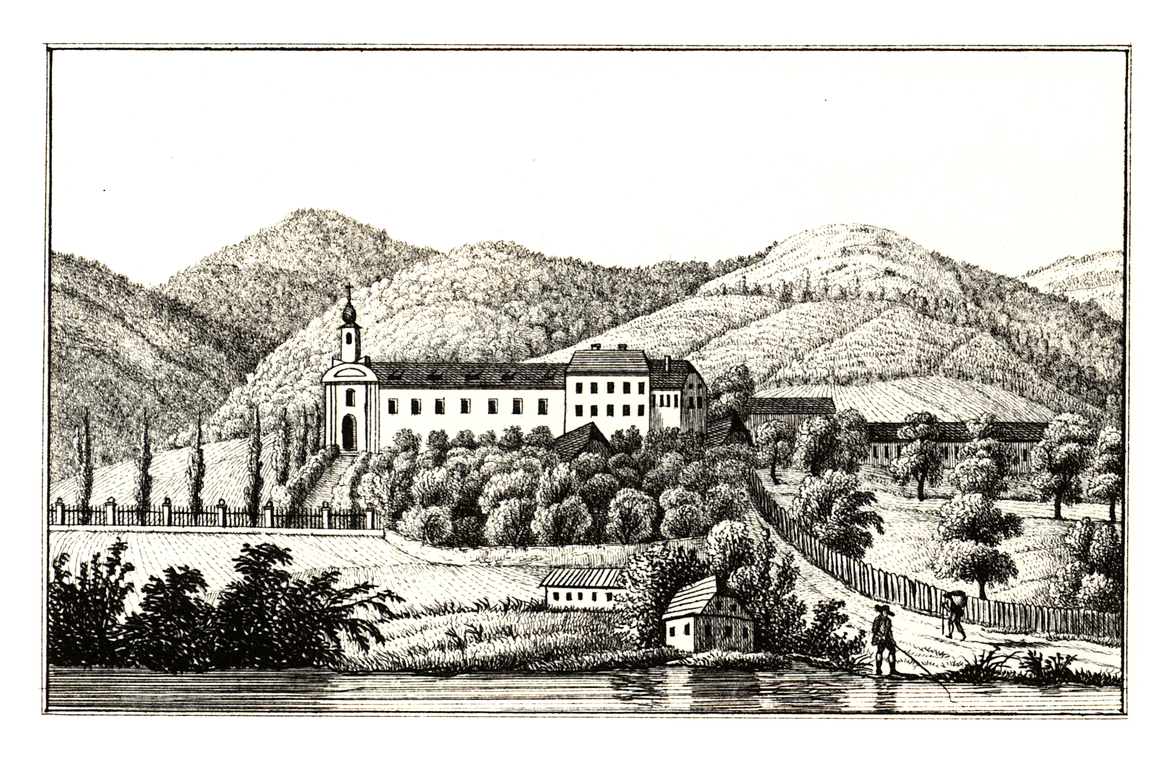 J. F. Kaiser - lithographirte Ansichten der Steyermärkischen Städte, Märkte und Schlösser, Graz 1824-1833 Joseph Franz Kaiser (1786–1859) Alternative names J. F. KaiserDescriptionAustrian printer and editorDate of birth/death 11 March 1786 19 September 1859Location of birth/death Graz (Styria) GrazAuthority control : Q1499963 VIAF: 30629353 ISNI: 0000 0000 3083 0153 LCCN: n87141671 GND: 129880159 NLP: A24960305 WorldCat creator QS:P170,Q1499963 . Scanprojekt Community Projektbudget 2012 This scan or this PDF-file was created within the GLAM-project Bookscanning, supported by Wikimedia Germany and Wikimedia Austria as a part of the community-project to capture books, documents and pictures which are not eligible to copyright or for which the copyright has expired. This document describes or depicts an object which is located in Austria today. Send requests for uncompressed scans to Hubertl. This work is in the public domain in its country of origin and other countries and areas where the copyright term is the author's life plus 100 years or fewer. You must also include a United States public domain tag to indicate why this work is in the public domain in the United States. This file has been identified as being free of known restrictions under copyright law, including all related and neighboring rights.